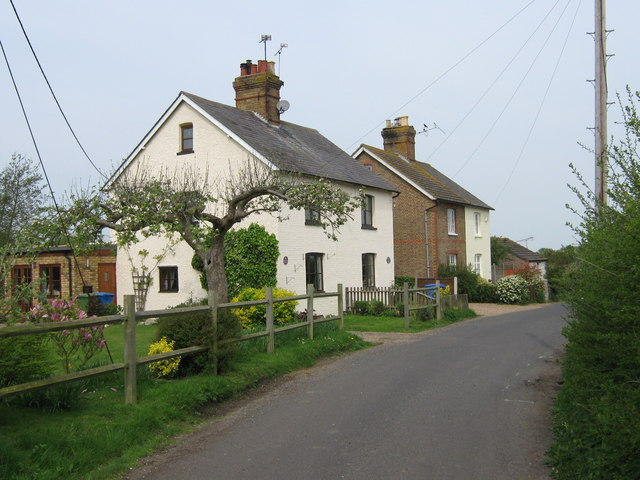 Stuppington Cottages Two Pairs of Cottages (1-4) on Norton Road.